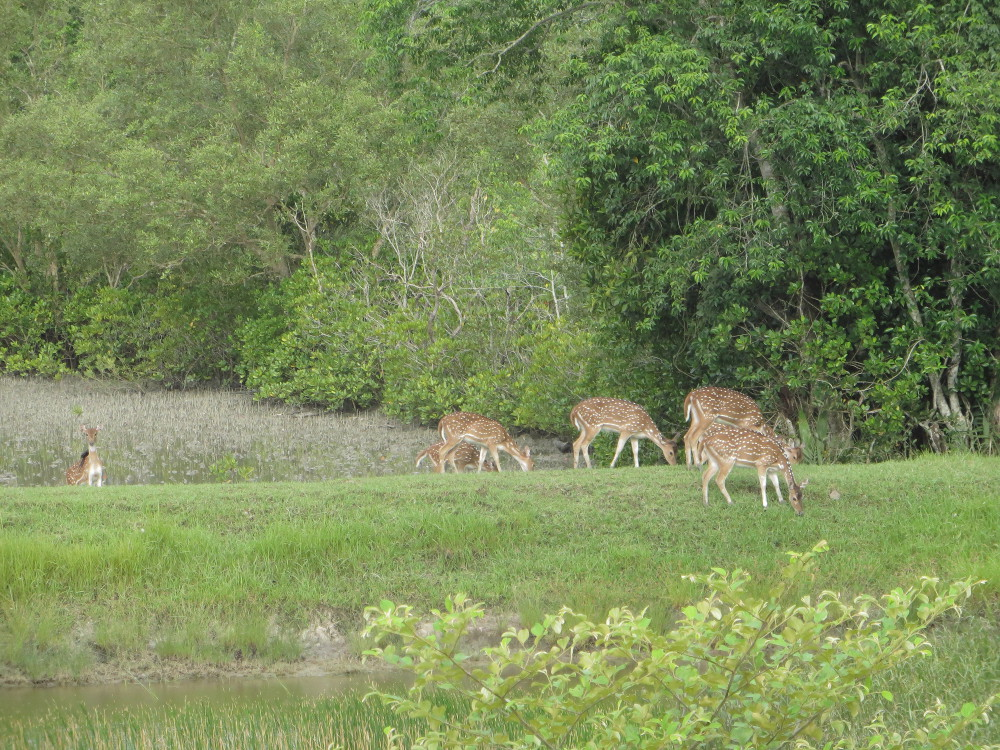 Herd of Deer at Sudarnakhali, Sundarbans, West Bengal, India